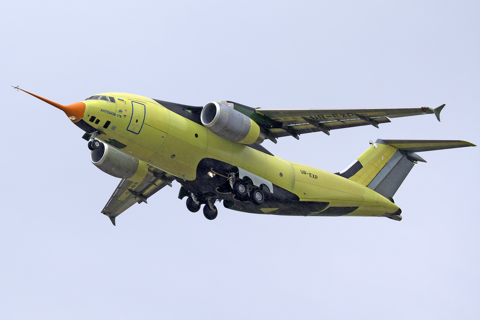 Maiden flight of the Antonov An-178 prototype at Gostomel Airport